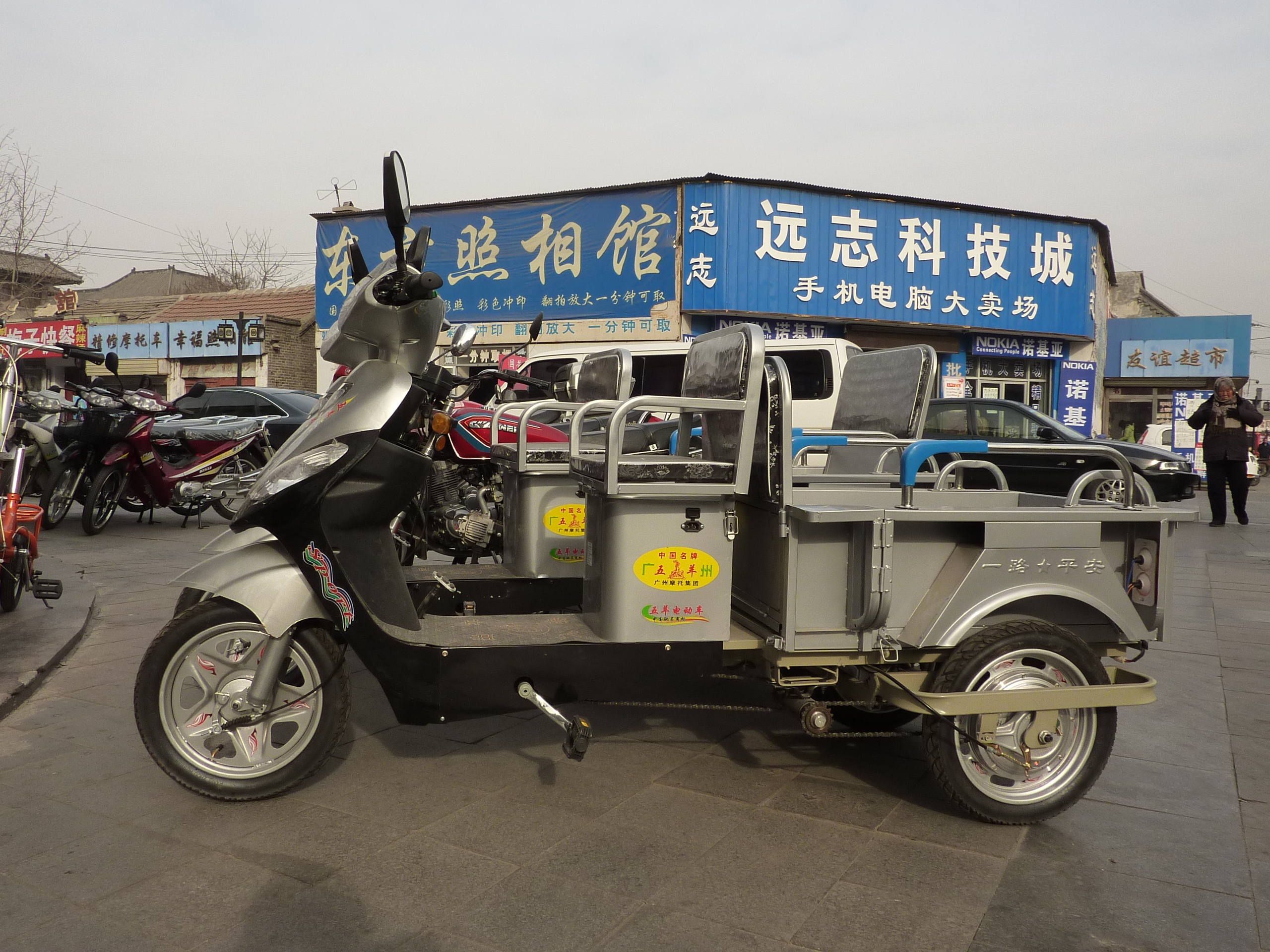 A shop in Qufu, Shandong, selling electric bicycles, motorcycles, and three-wheel vehicles (very popular in the area) of various kinds. Located in a shopping area on the east side of the old walled city